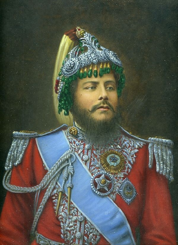 Prime Minister Bir Shamsher JBR (1852-1901) and Maharaja of Kaski and Lamjung